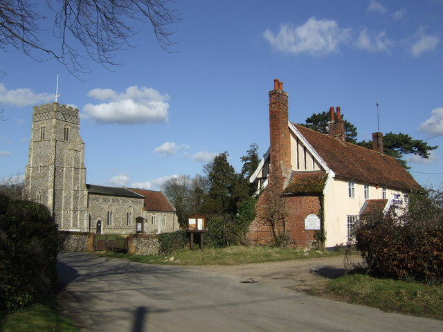 Pettistree church and pub Two equal subjects; nice and solid!